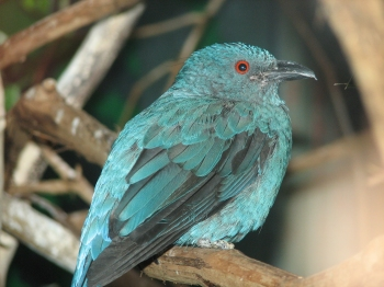 Fairy Bluebird Female Louisville Zoo, Nov 5th 2006 Flash Used